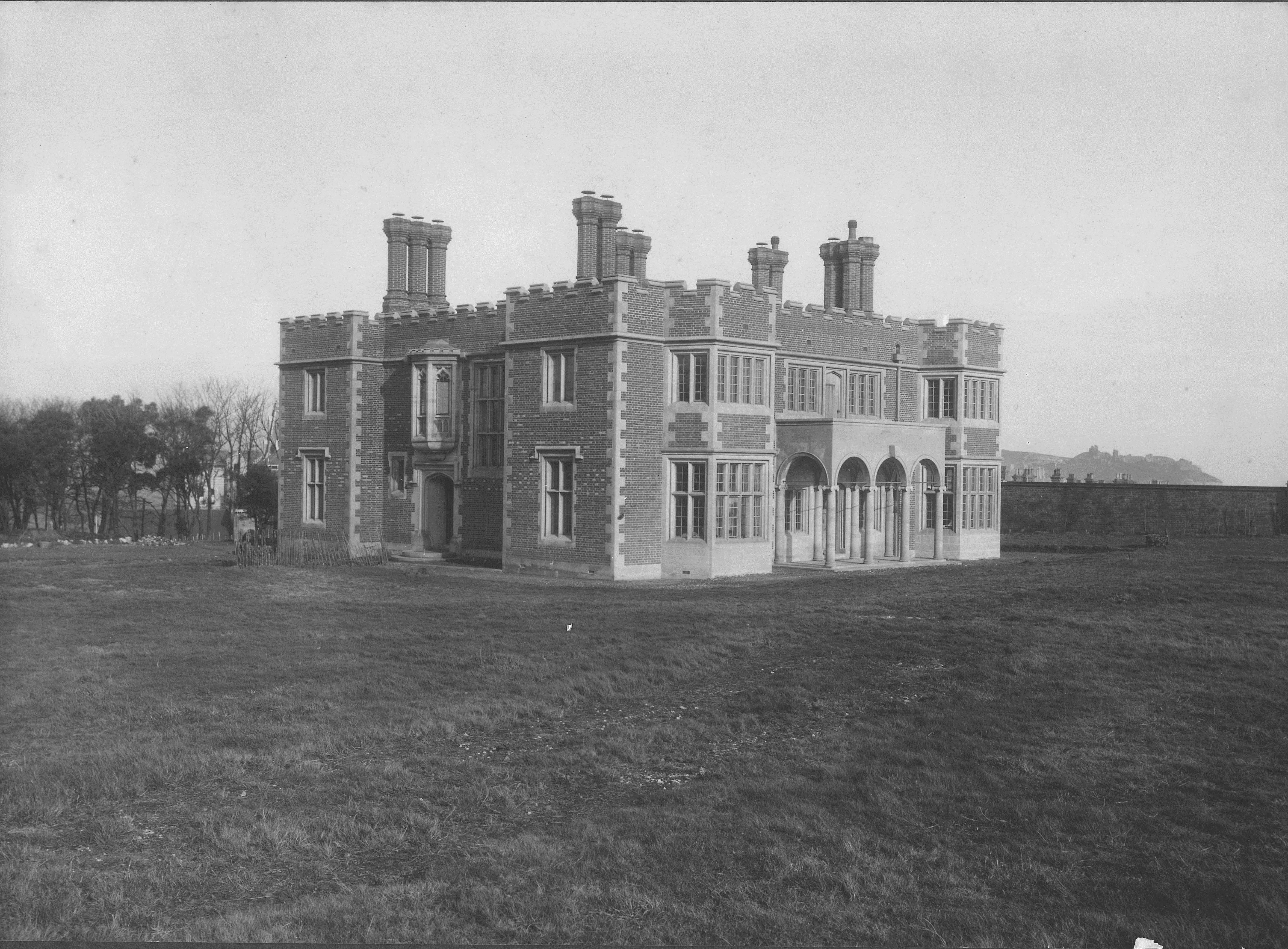 Johns Place House